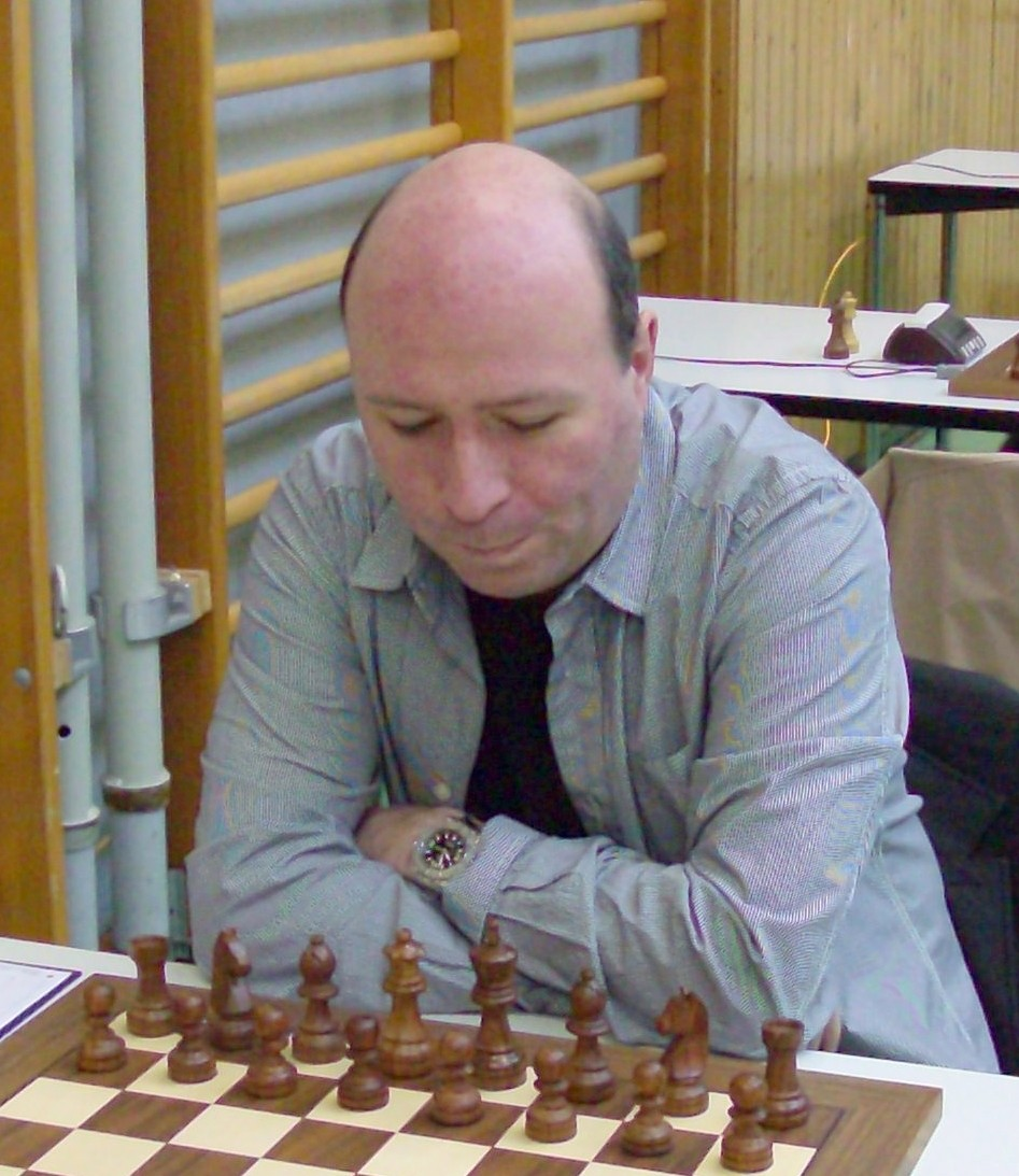 Vladimir Chuchelov, chess grandmaster from Russia